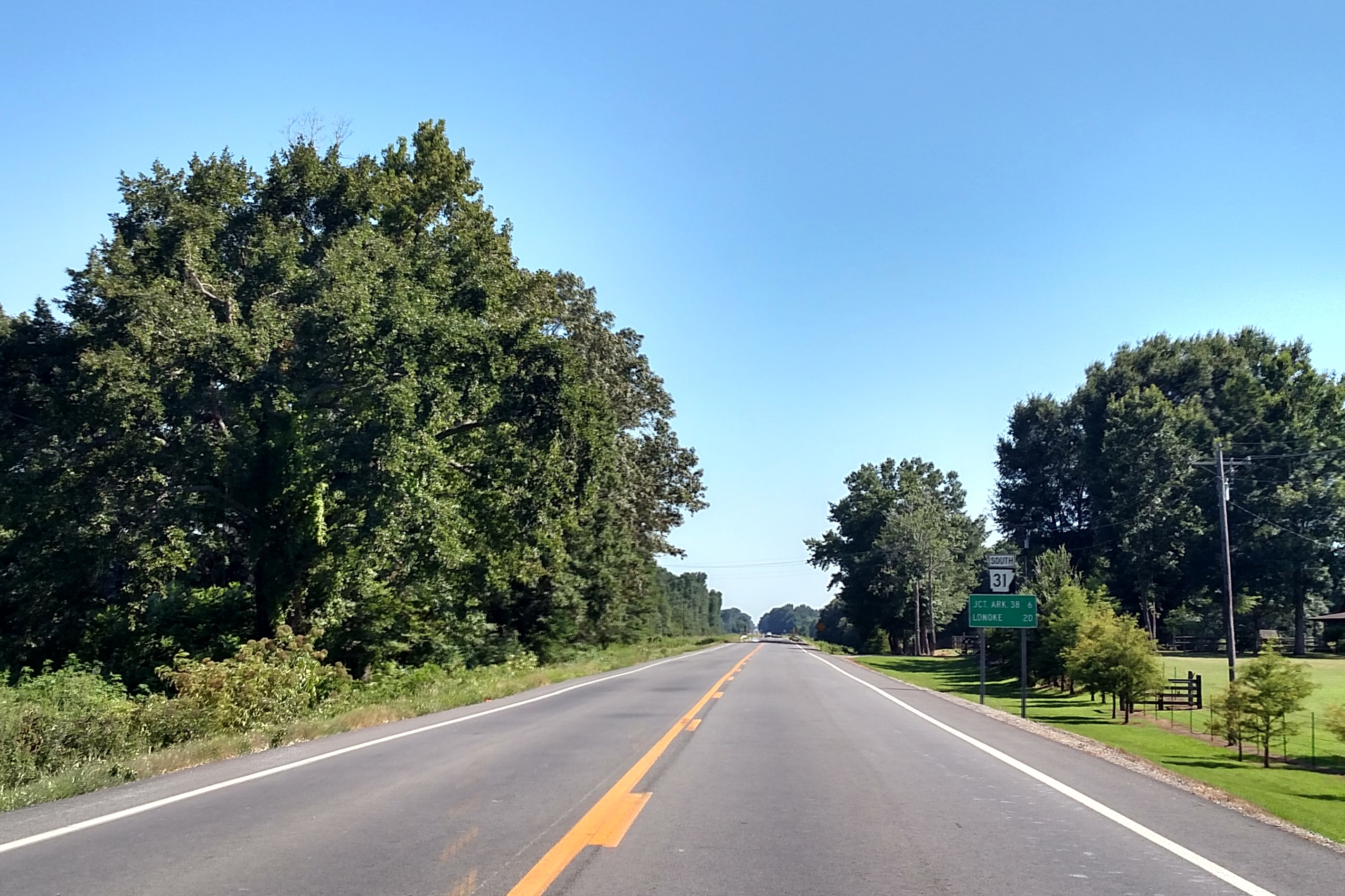 Highway 31 south of Highway 267 intersection south of Beebe